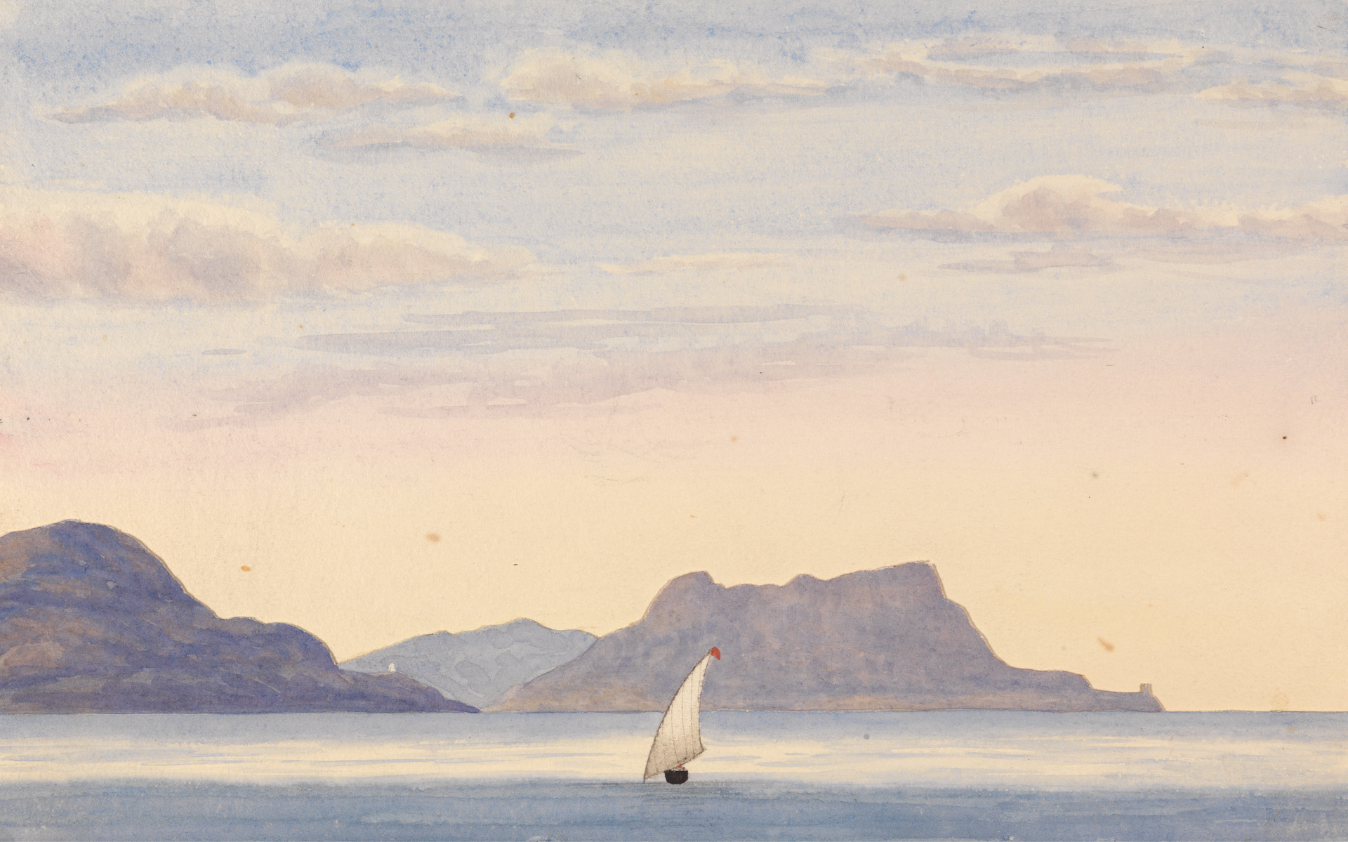 Cabrita Point - view of Gibraltar by George Lothian Hall, 1825-1888 from Yale Center for British Art, Paul Mellon Collection